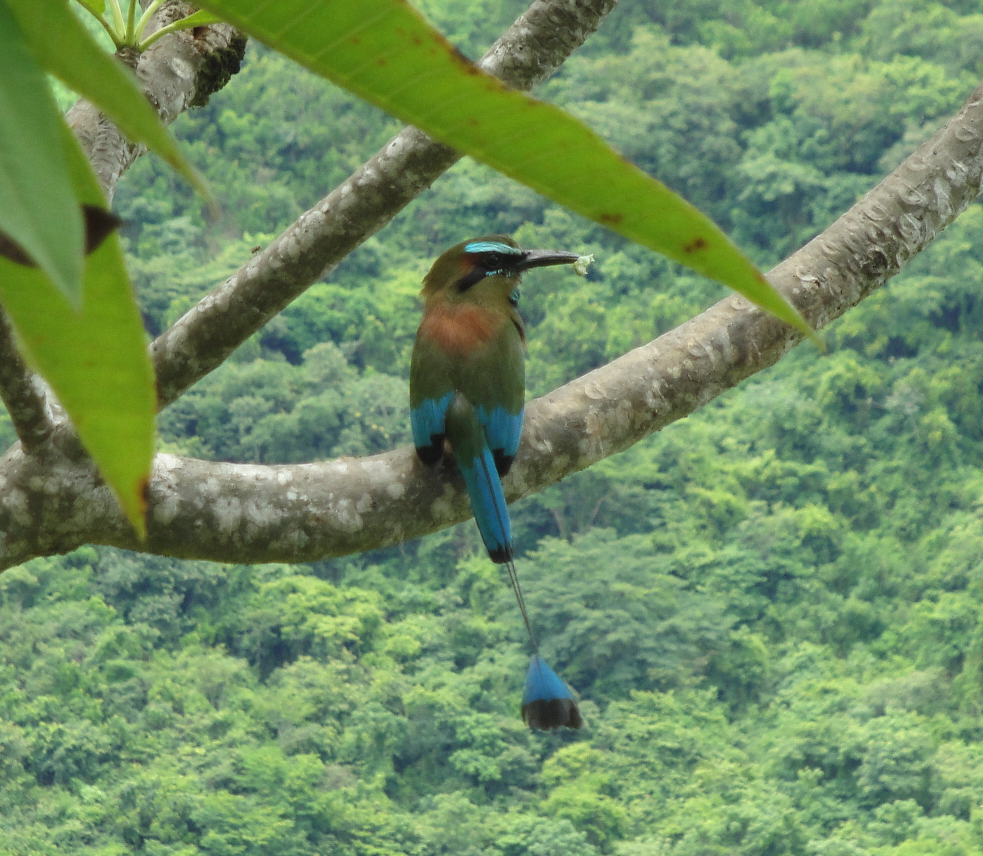 A Turquoise-browed Motmot in El Salvador. It has an insect in its beak.